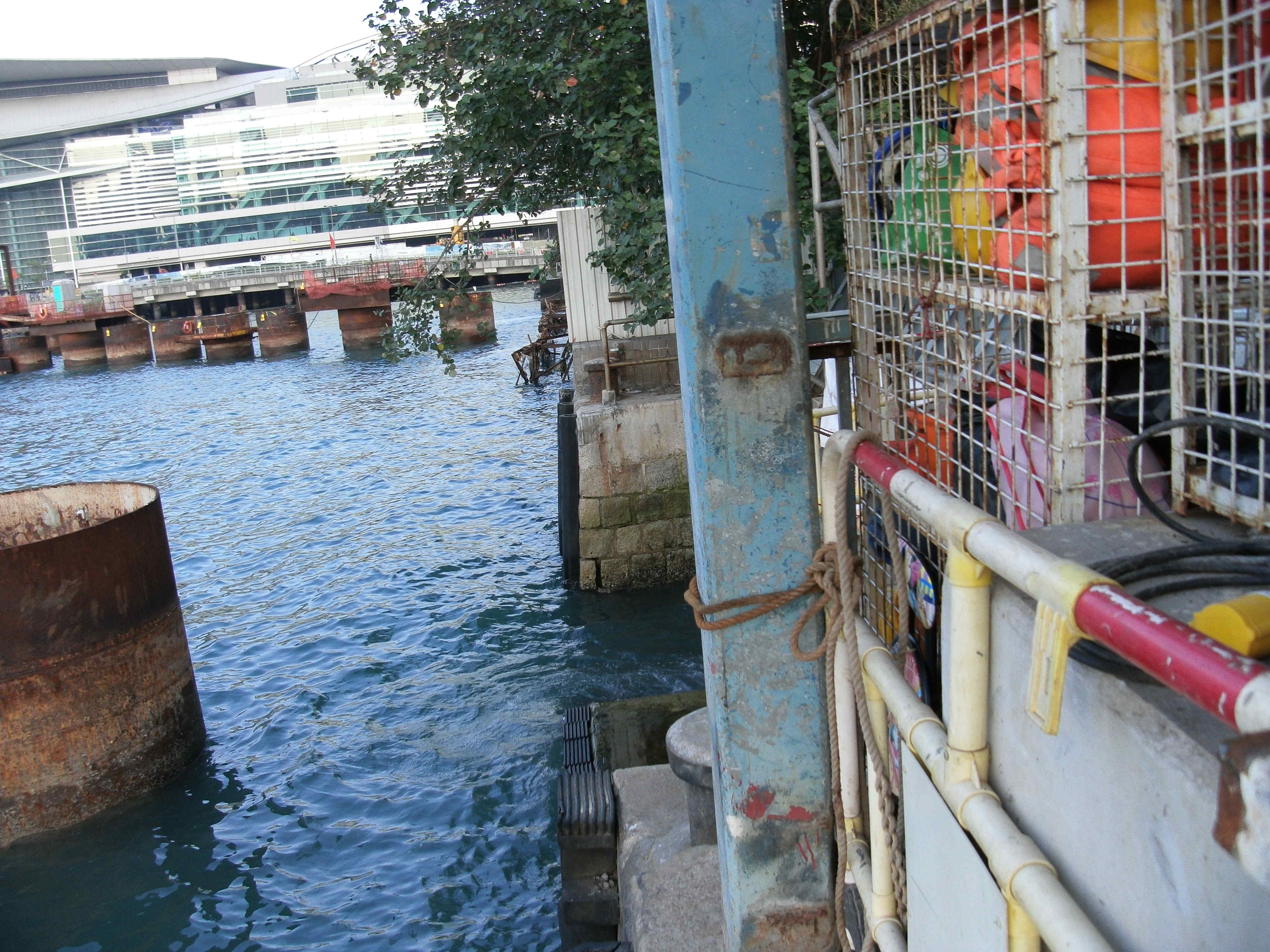 Closed fenwick public pier, Hong Kong